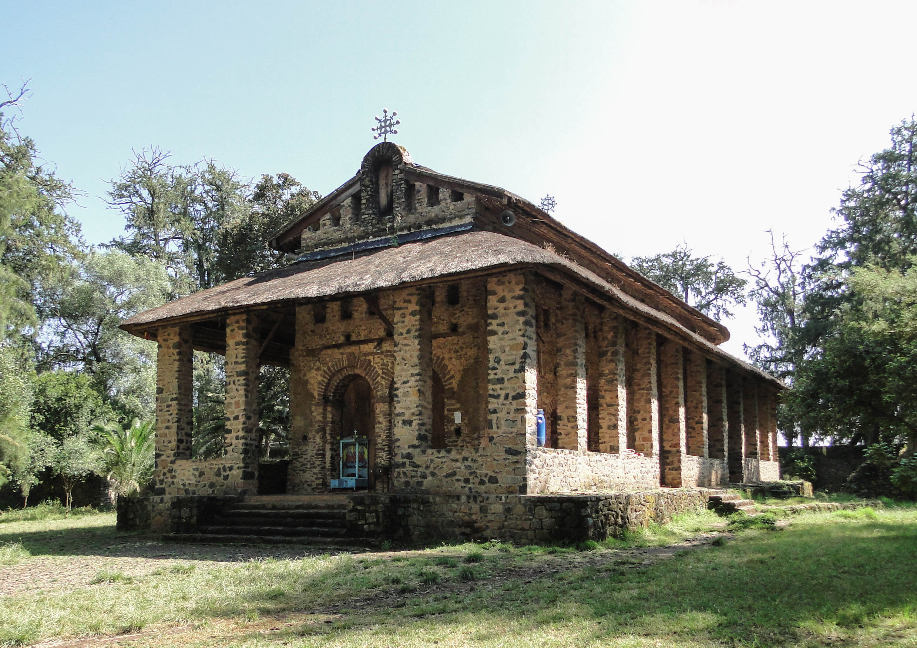 Church of Debra Berhan Selassie, Gondar, Ethiopia